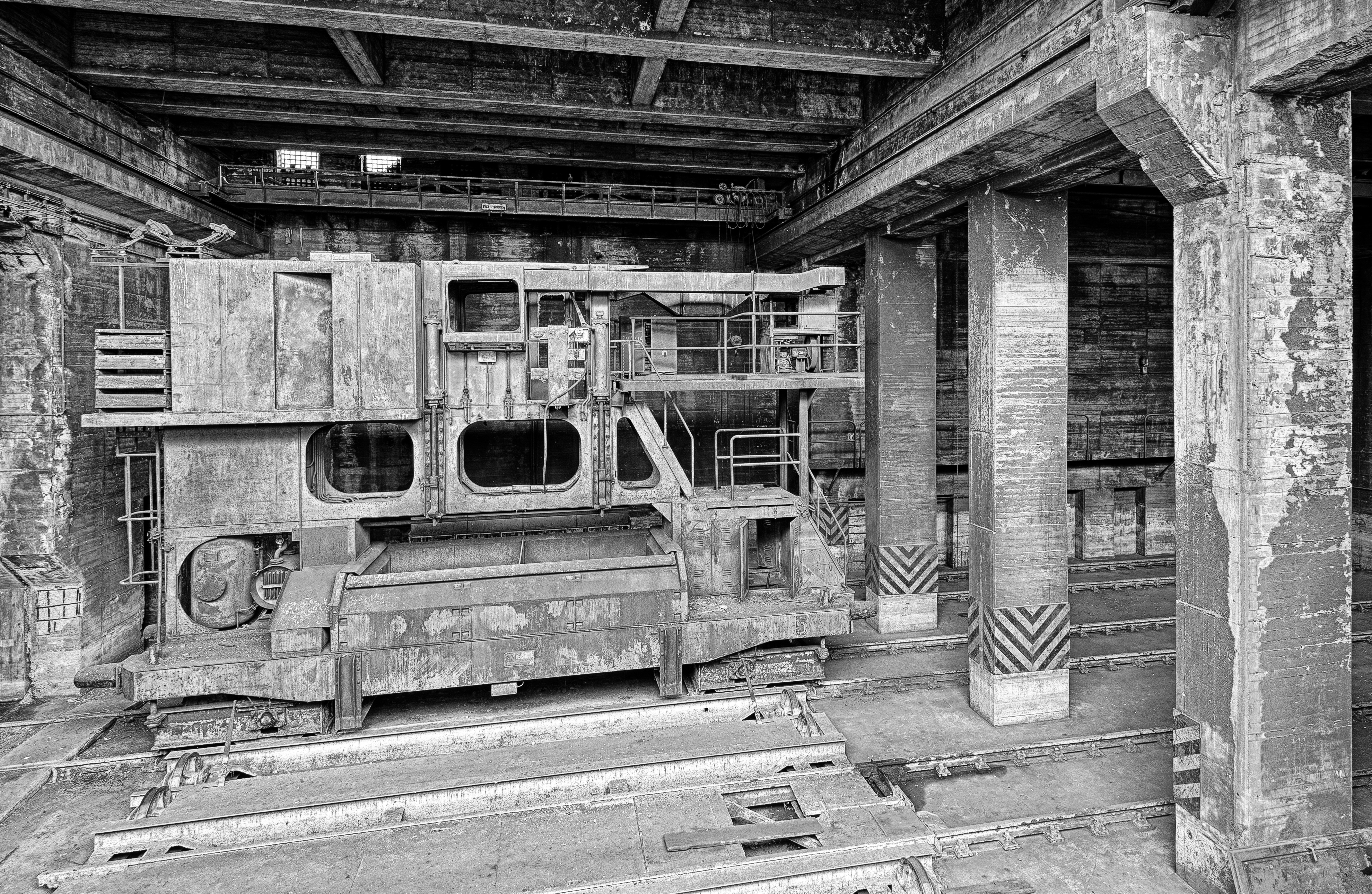 Park of Landscape ("Landschaftspark") Duisburg-Nord, part of an old industrial plant